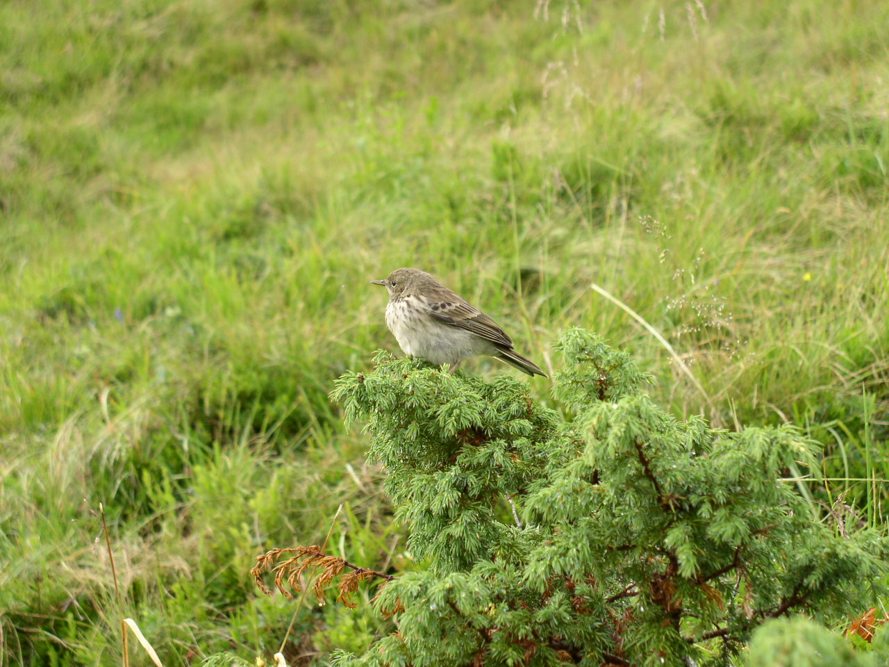 Water Pipit, perched on Alpine Juniper